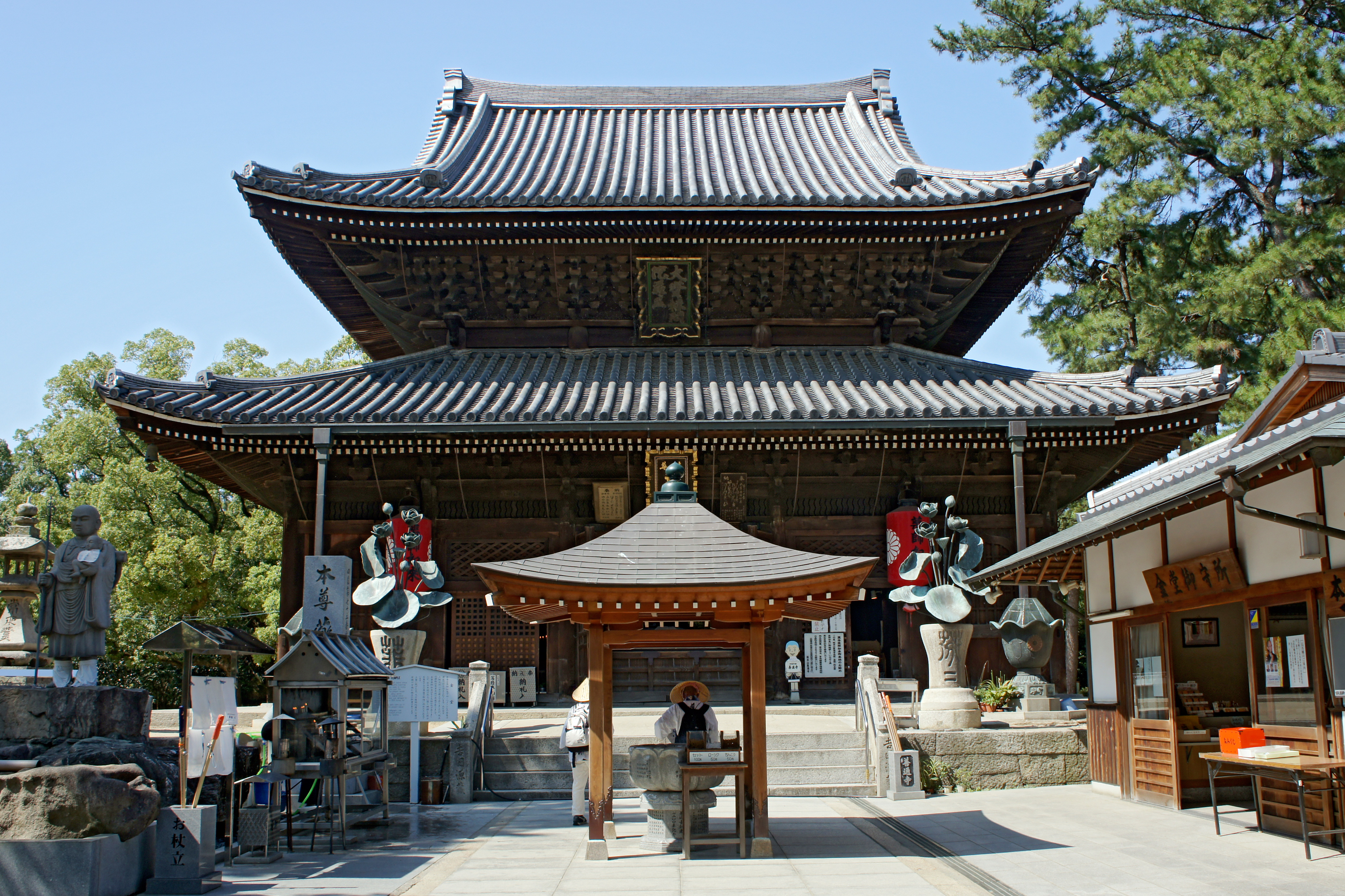 Zentsu-ji in Zentsuji, Kagawa prefecture, Japan. Notice the swastikas on the two roofs